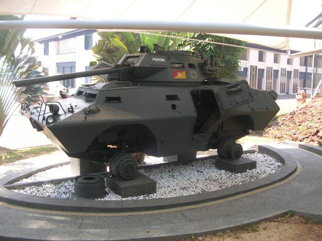 Image of a retired Malaysian Army V-150, without wheels and in the old Malaysian Army livery, on display at the Malaysian Army Museum, Port Dickson.